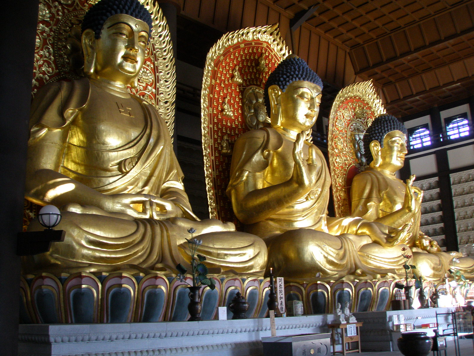 Tajima Daibutsues of Choraku-ji in Kami,Hyogo prefecture, Japan. One in that, the statue of Buddha Shakyamuni is a wooden buddhist statue of the world's largest Zen meditation style.